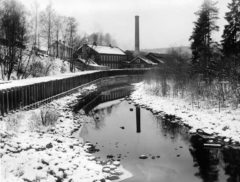 Kjelsaas Brug